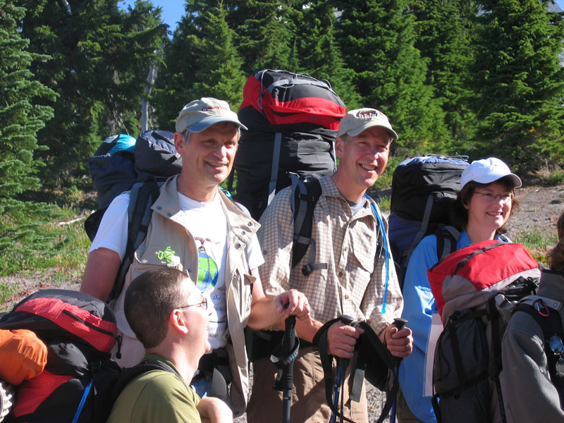 08/16/2005 - Congressman Blumenauer and Congressman Walden hike Mt. Hood to review the impact of federal policies.